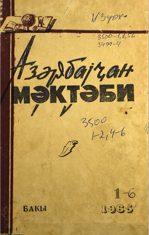 Journal Cover Page 1966